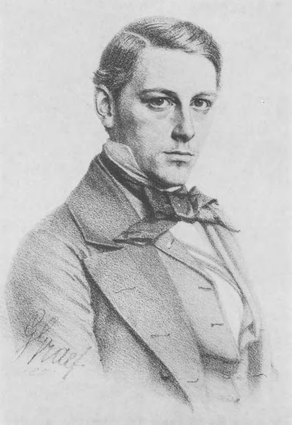 Otto Hilbert, father of David Hilbert, as a university student in 1850